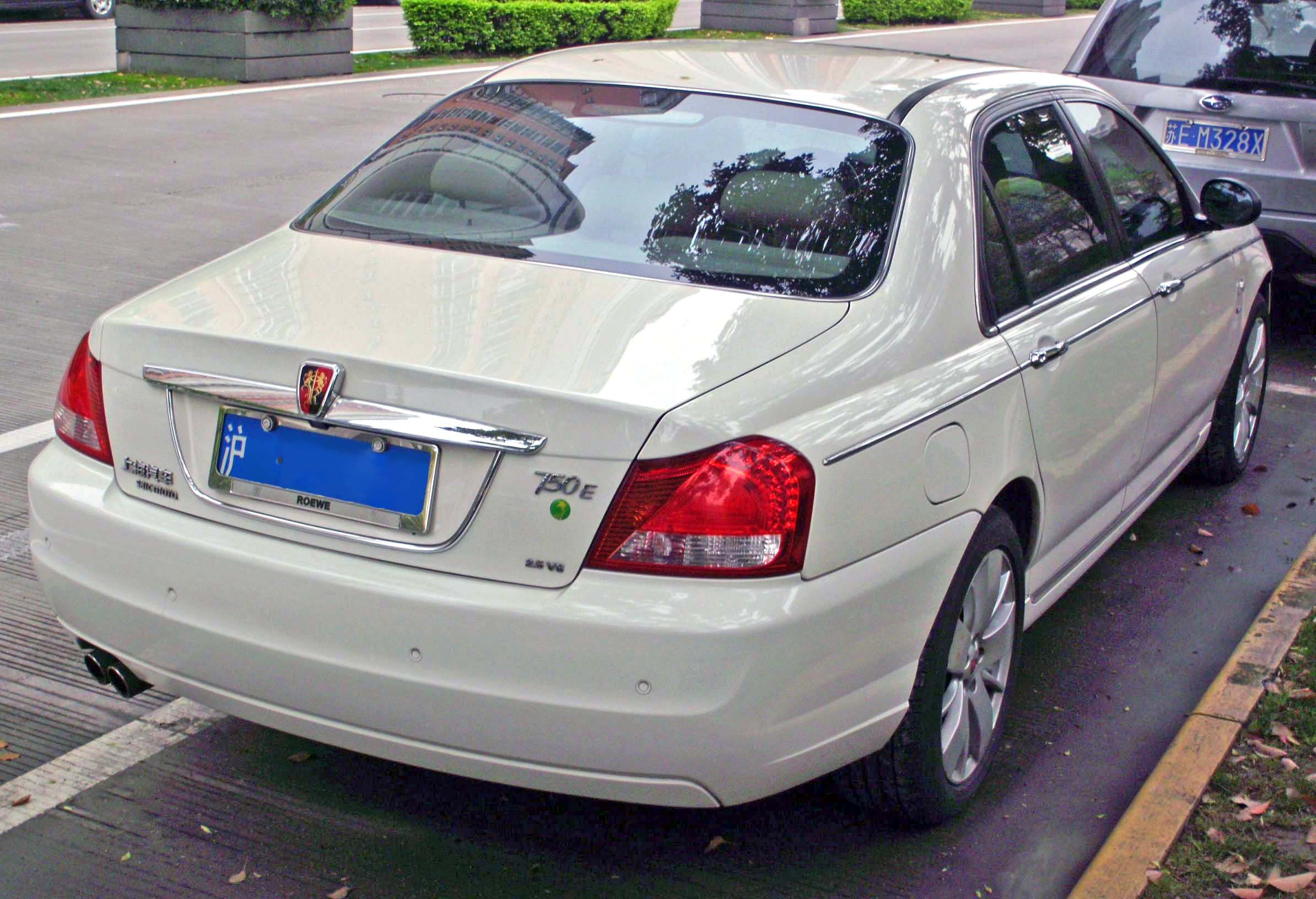 Roewe 750 (ex-Rover 75) in Shanghai